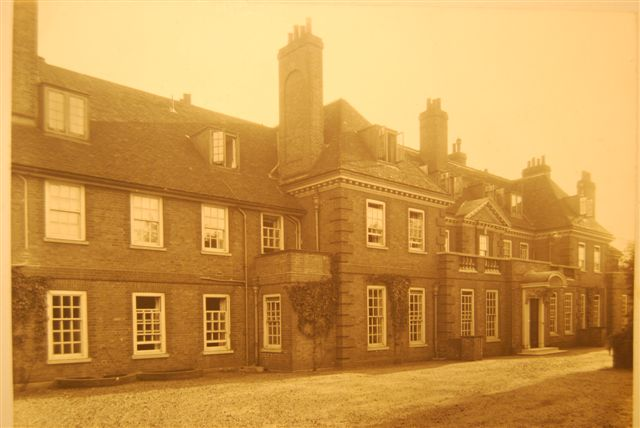 Photograph of the front of Main House, Ibstock Place School